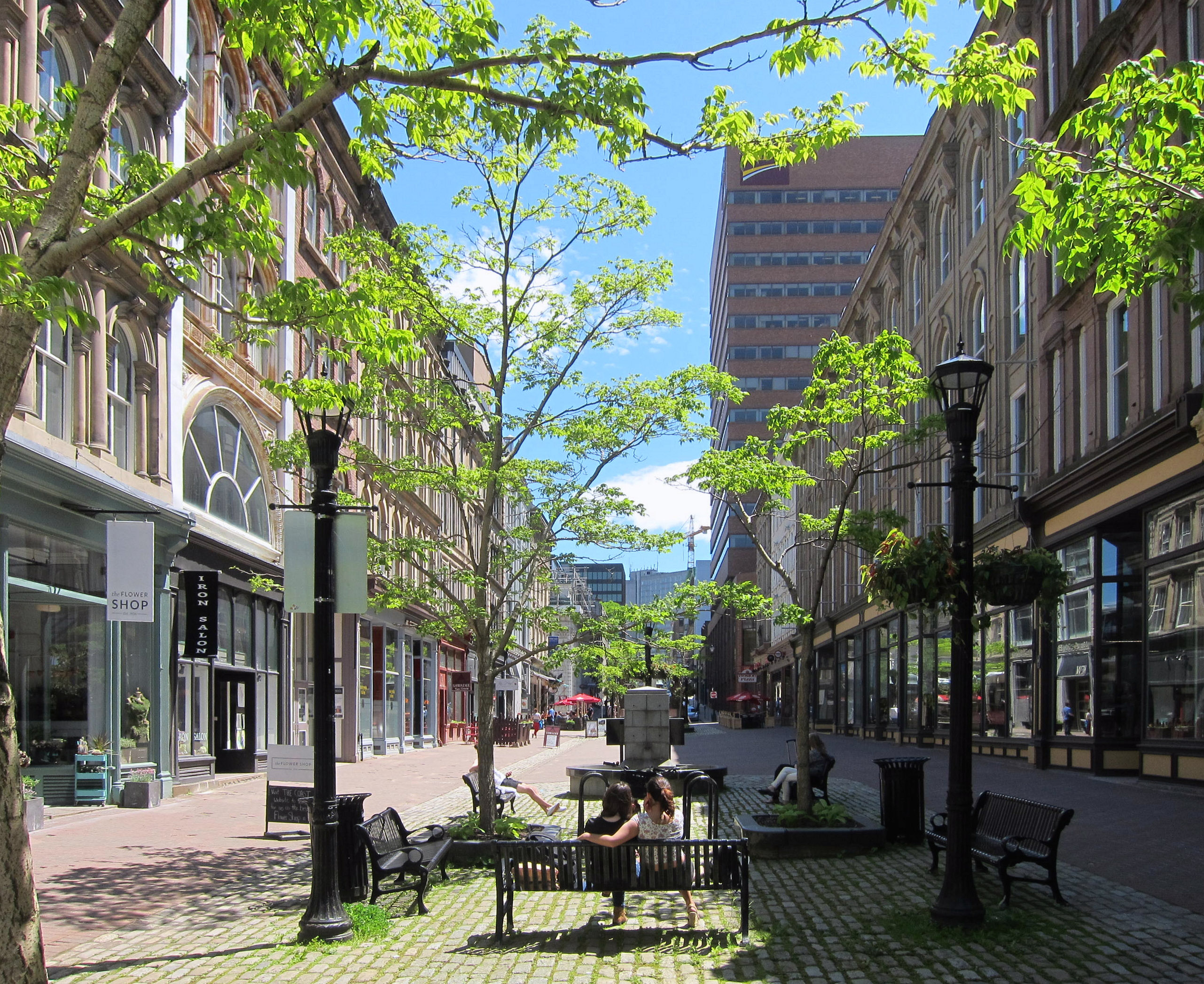 Granville Mall in Downtown Halifax, 2016.